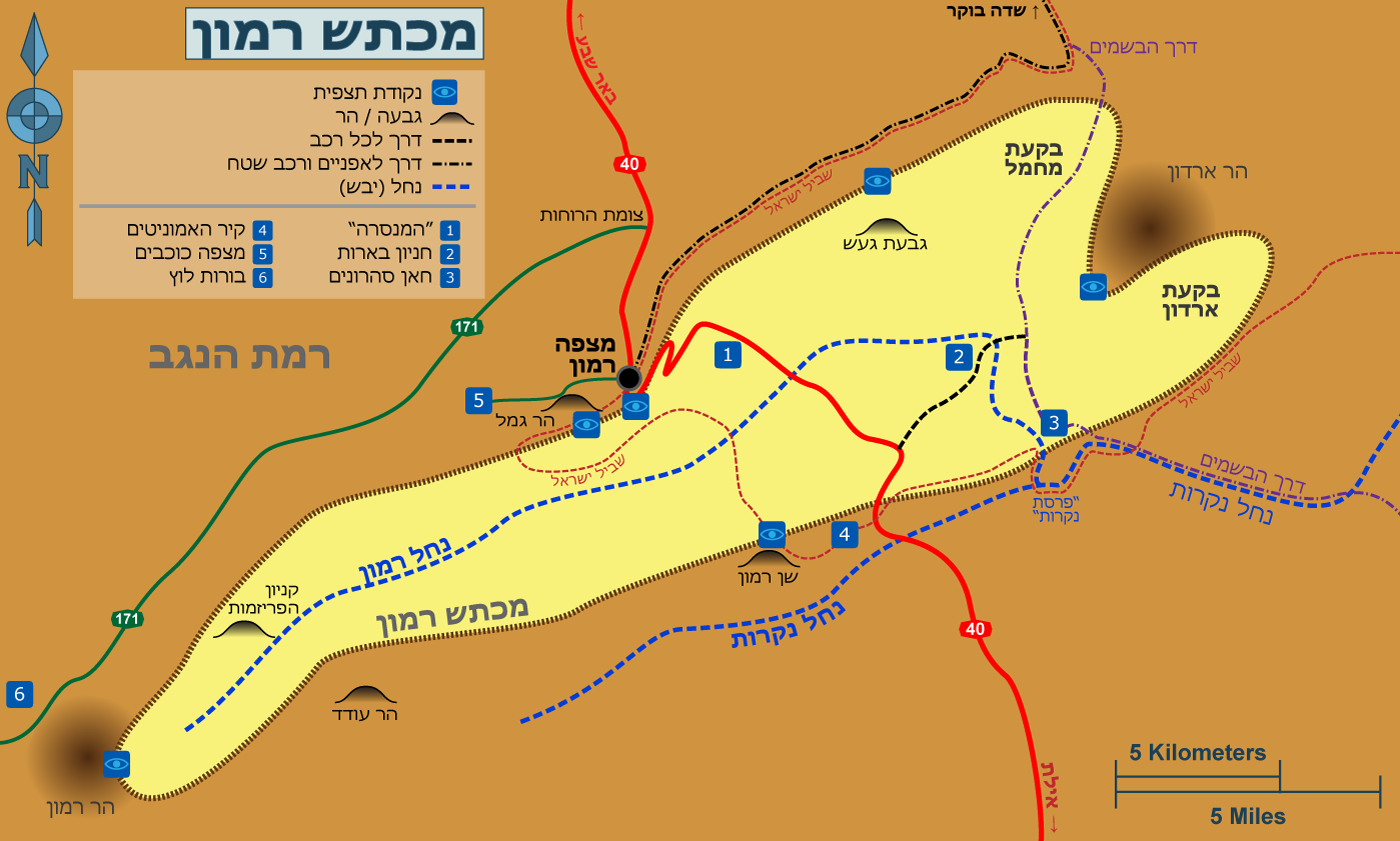 See the English version at File:Maktesh Ramon Map Wikivoyage en rasterized.png.